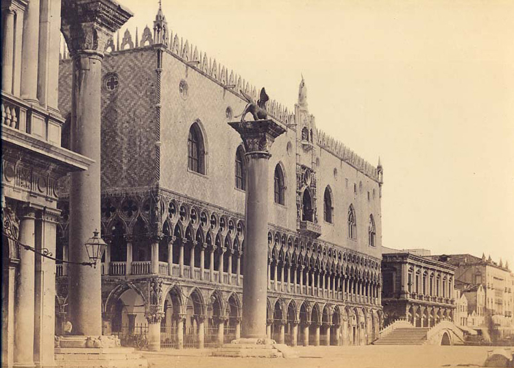 Carlo Ponti (ca. 1833-1895) - "Venice. Doges' Palace".